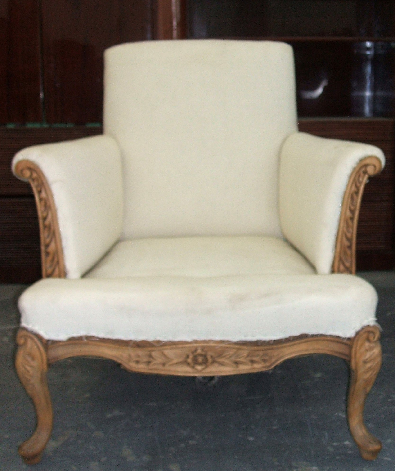 An armchair stripped of its top cover, waiting to be recovered. Re-upholstery would involve stripping it to the bare wooden frame.